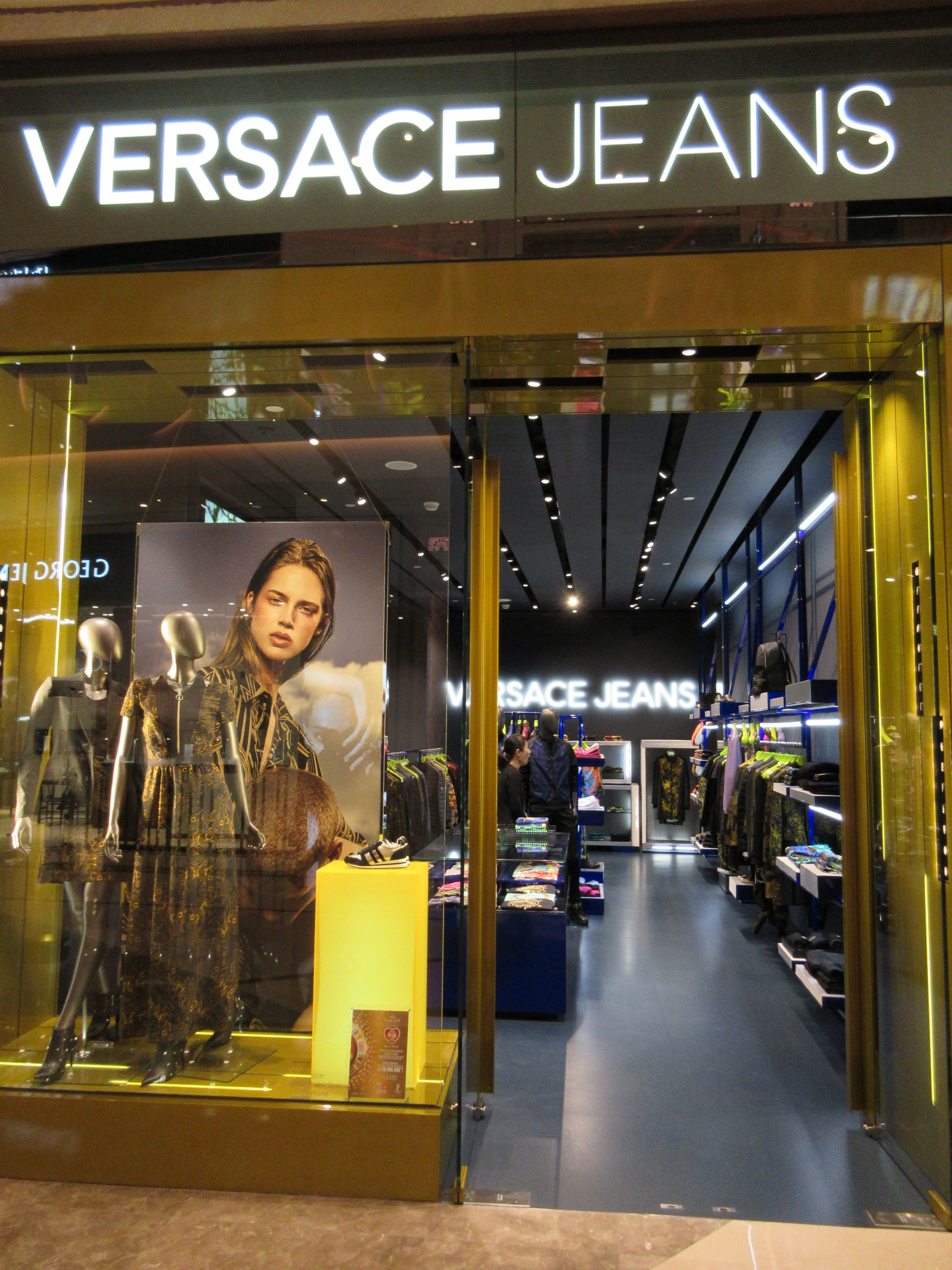 MC JW Marriott 澳門銀河 Galaxy Macau mall The Promenade Central in Jan 2017